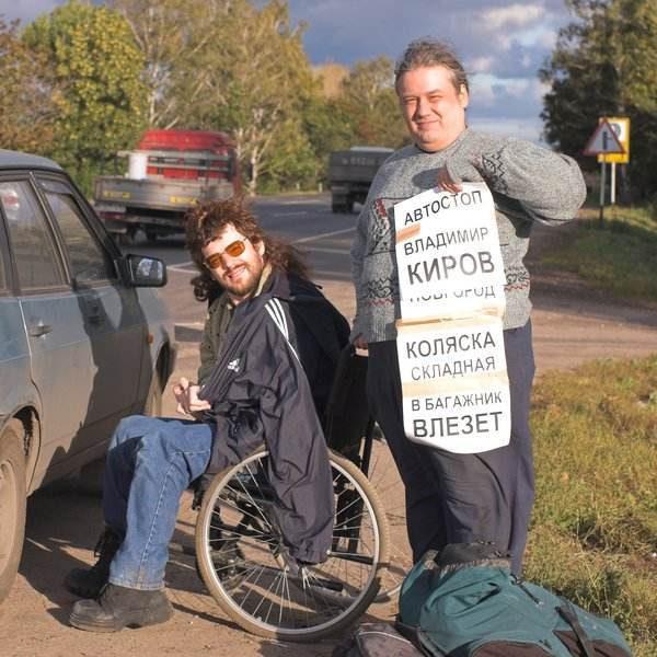 non-trivial HichHiking. Russia, Moscow, Noginsk. ~1000km from Moscow to Kirov.